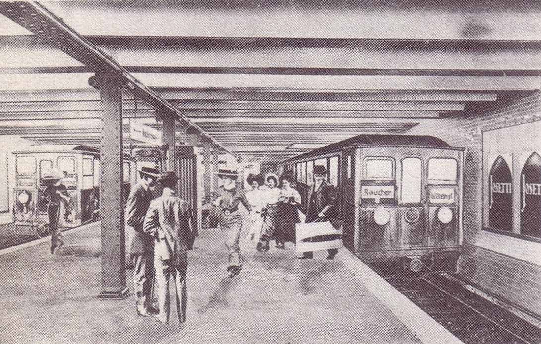 The Berlin U-Bahn station Senefelderplatz, line U2